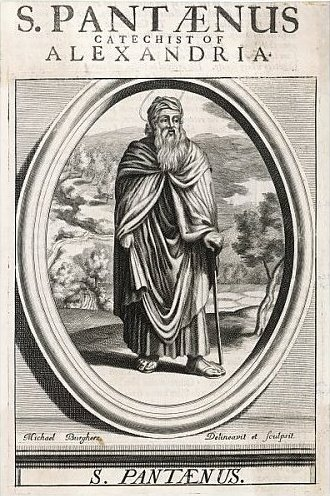 Engraving plate with Saint Pantaenus of Alexandria, 17th cent.